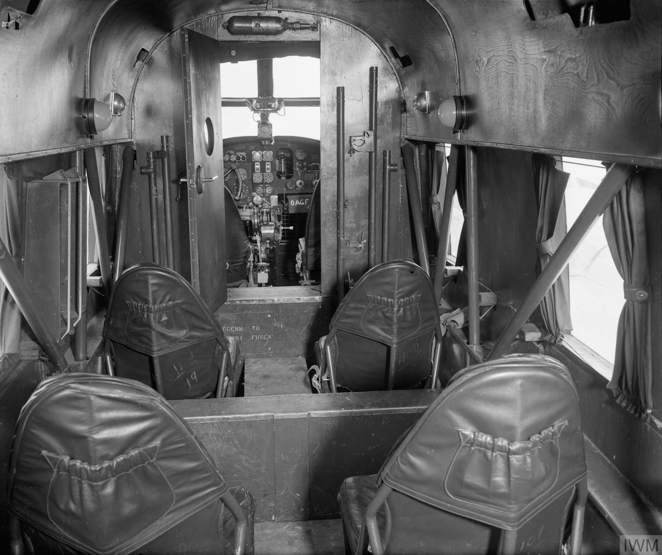 Royal Air Force Transport Command, 1943-1945. The interior of Avro Anson C Mark XI, PH693, of No. 167 Squadron RAF at Hendon, Middlesex, looking forward from the passenger compartment to the cockpit. The aircraft's four-letter Transport Command callsign 'OAGF' can be seen painted on the instrument panel to the right.